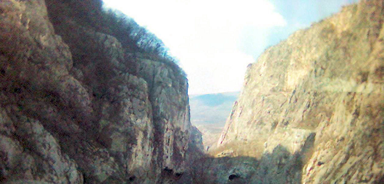 The gorge of Nišava in the east of Serbia.